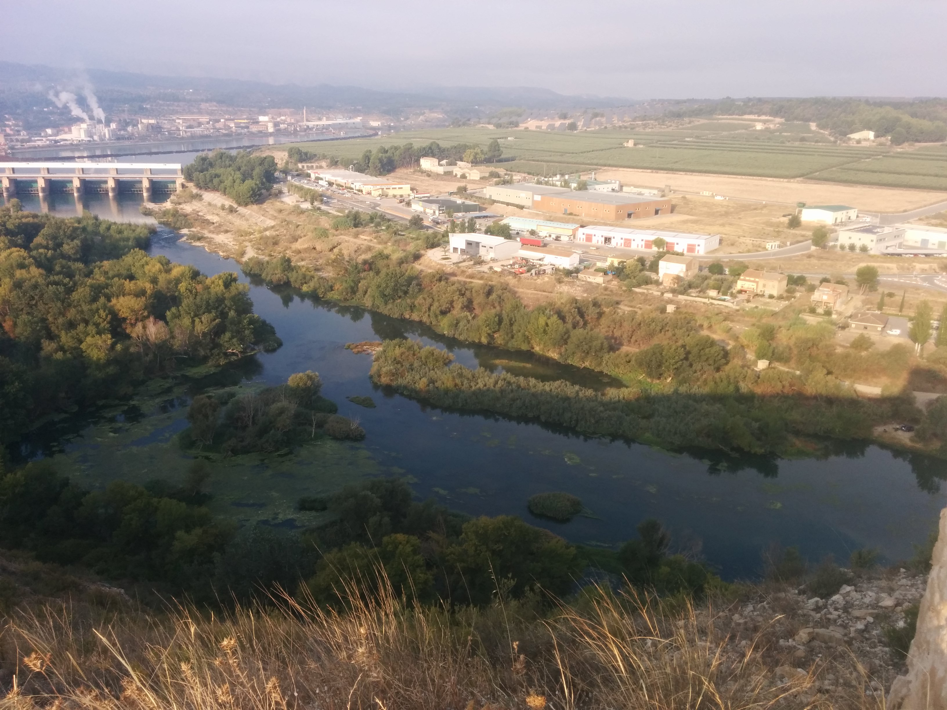 View of Flix is a town in the comarca of Ribera d'Ebre, Catalonia. The town's main square has a church named "Esglesia de la Mare de Deu de l'Assumpicio" and there is the remains of an old river lock on the river